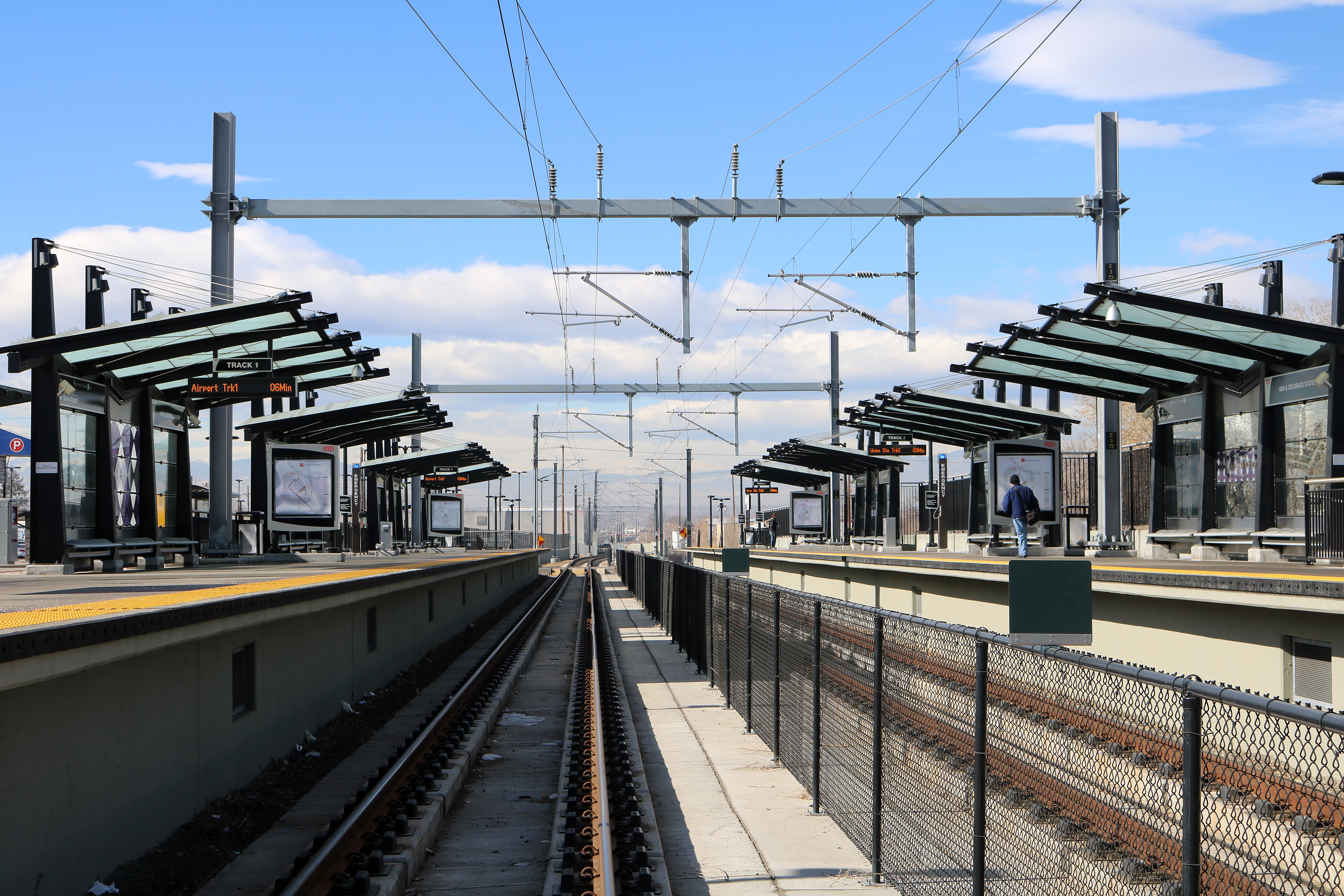 The Denver RTD 40th & Colorado Station, located at 4220 Garfield Street in Denver, Colorado.